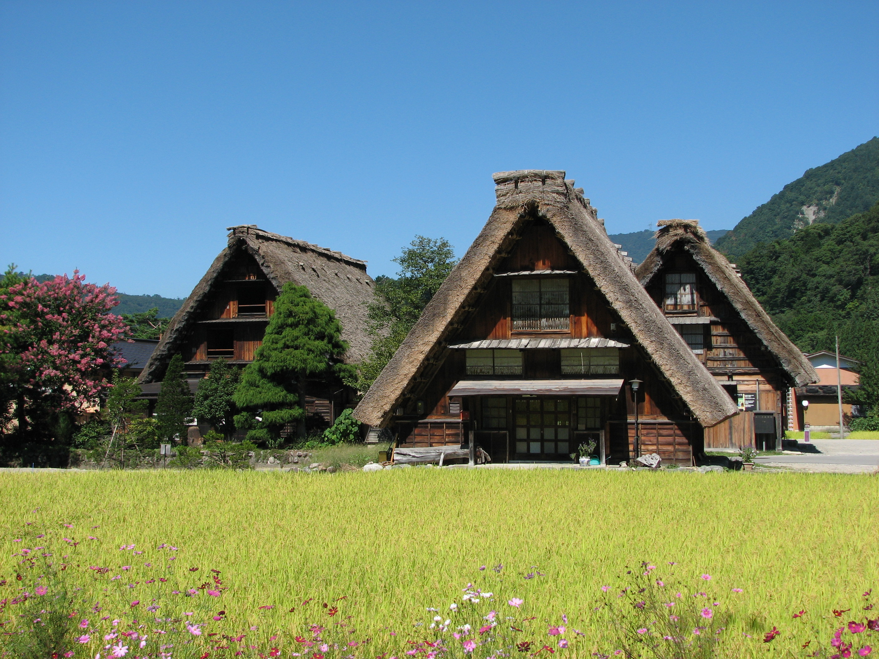 Old houses in Shirakawa-go (World Heritage Site), Japan